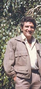 Sergio Frenchi - Italo-American Tenor